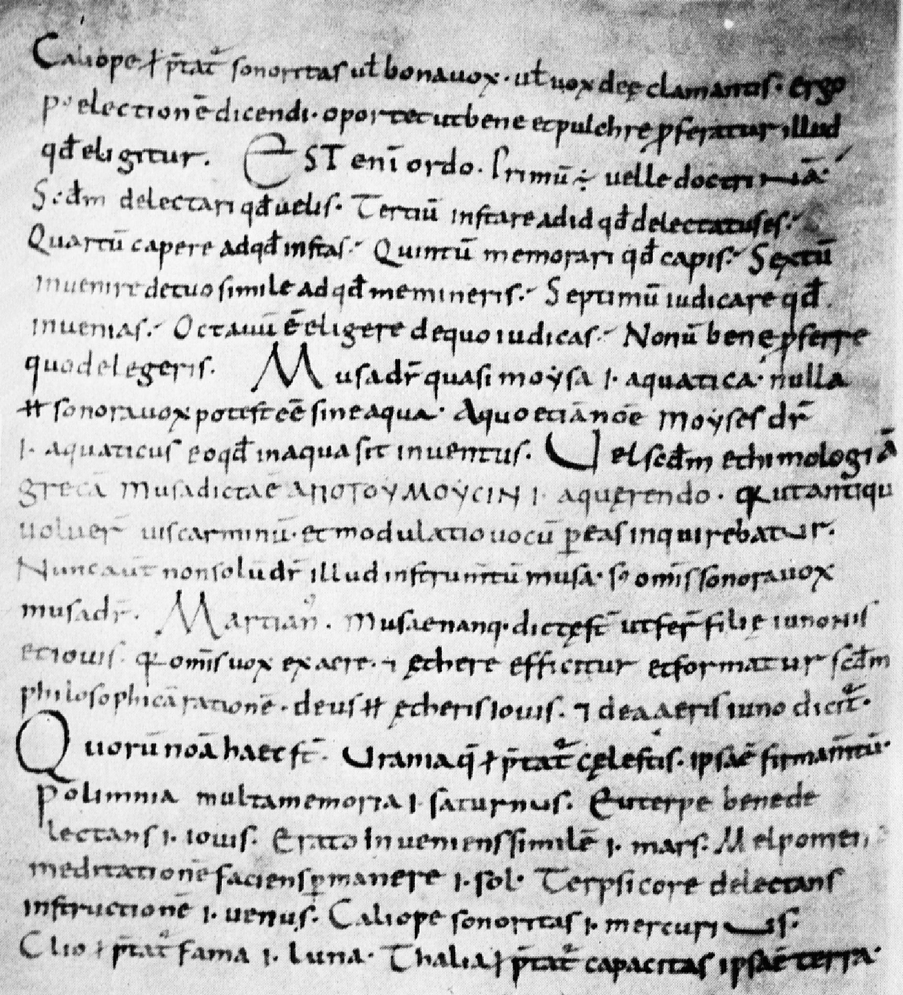 MS Laon, Bibl. mun. 444, fol. 299v: Explanation of the nine muses, hand of Martinus Hibernensis (Martin of Laon), reproduced from John J. Contreni, The Cathedral School of Laon from 850 to 930: Its Manuscripts and Masters, Munich: Arbedo Gesellschaft, 1978, Table III